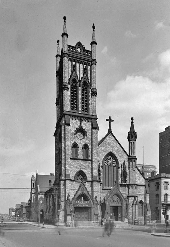 St Johns Episcopal Church — on Woodward Avenue in Detroit, Michigan. Historic American Buildings Survey—HABS image (1934).